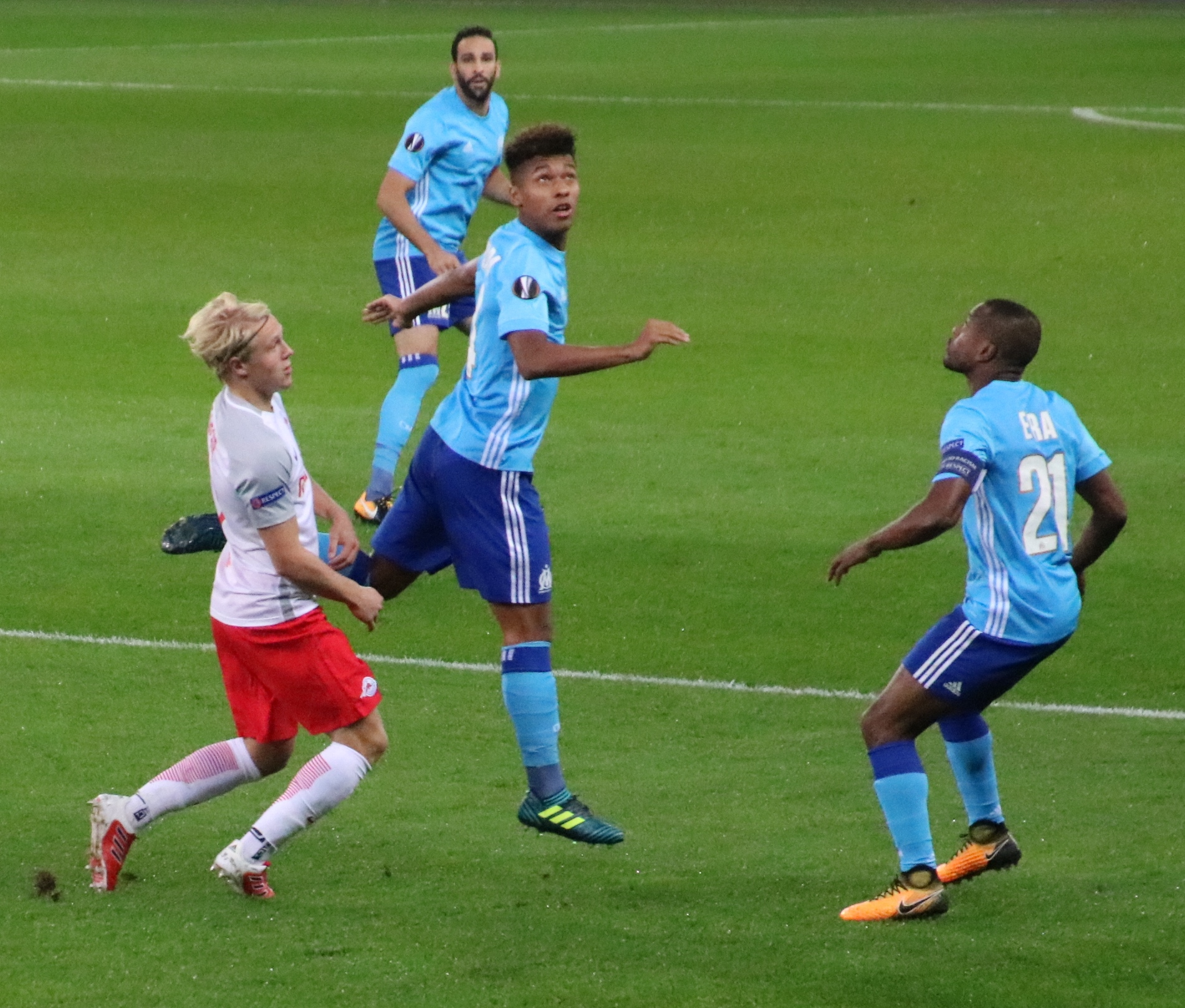 UEFA Euroleague group stage matchday 2